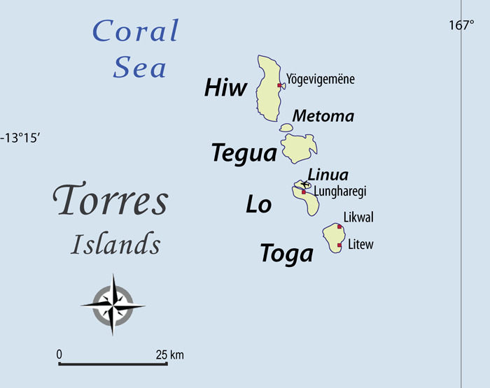 I have drawn this map of the Torres Islands (Vanuatu) based on several other maps showing sufficient precision. I paid special attention to the transcription of place names, based on personal fieldwork in the Torres Islands, and professional knowledge of the local languages.